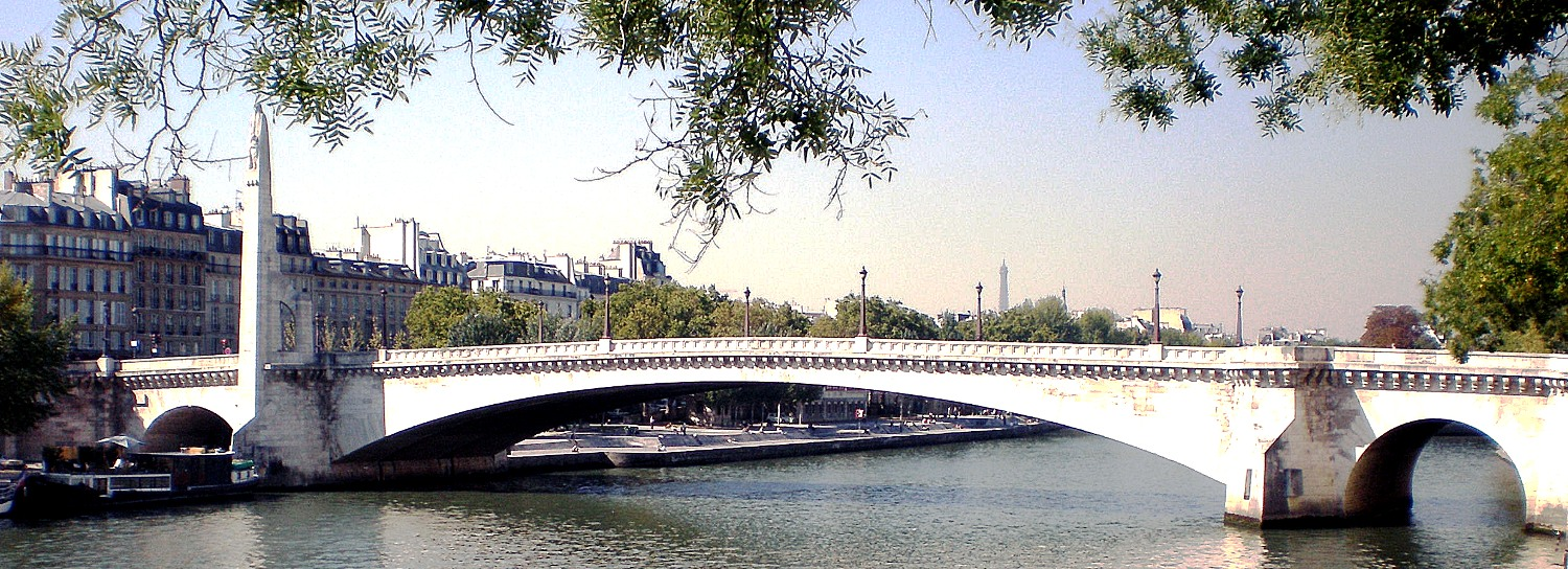 La Tournelle bridge - Paris